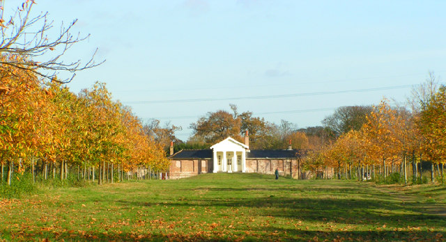 The Temple at Wanstead Park. A Neoclassical temple - garden house, built by the owner of Wanstead House in the 1760s. Located in the Wanstead Flats - Epping Forest area, in Wanstead - London Borough of Redbridge.